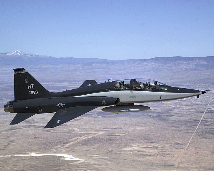 The AT-38B has a modified centerline pylon to enable carriage of many types of test and operational stores such as the ALQ-167 Electronic Counter Measures (ECM) pod, which is programmable with a wide variety of electronic jamming techniques as well as an ALE-40 chaff and flare pod